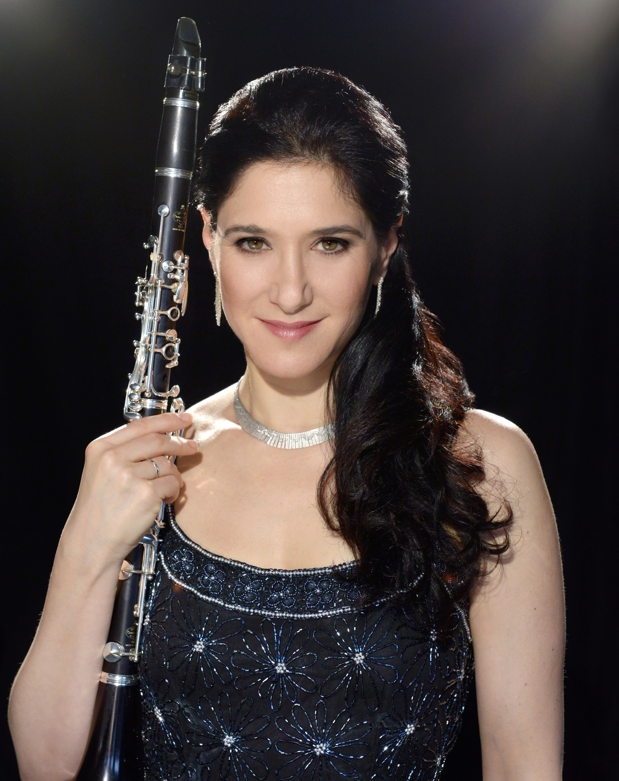 Sharon Kam , clarinetist